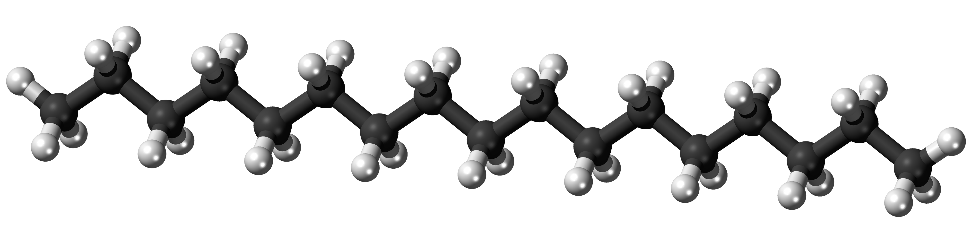 Ball-and-stick model of the heptadecane molecule, an alkane with 17 carbon atoms. Color code: Carbon, C: black Hydrogen, H: white